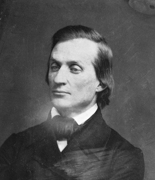 Solon Borland, a physician, politician, newspaper editor, diplomat, and military officer, as well as the first Arkansan to be given a major diplomatic assignment; circa 1850. Courtesy of the Library of Congress, Daguerreotype Collection, Prints and Photographs Division